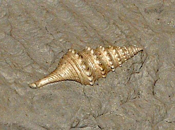 Fossil shell of Gemmula rotata from Pliocene of Italy, on display at the Museo Paleontologico, Asti